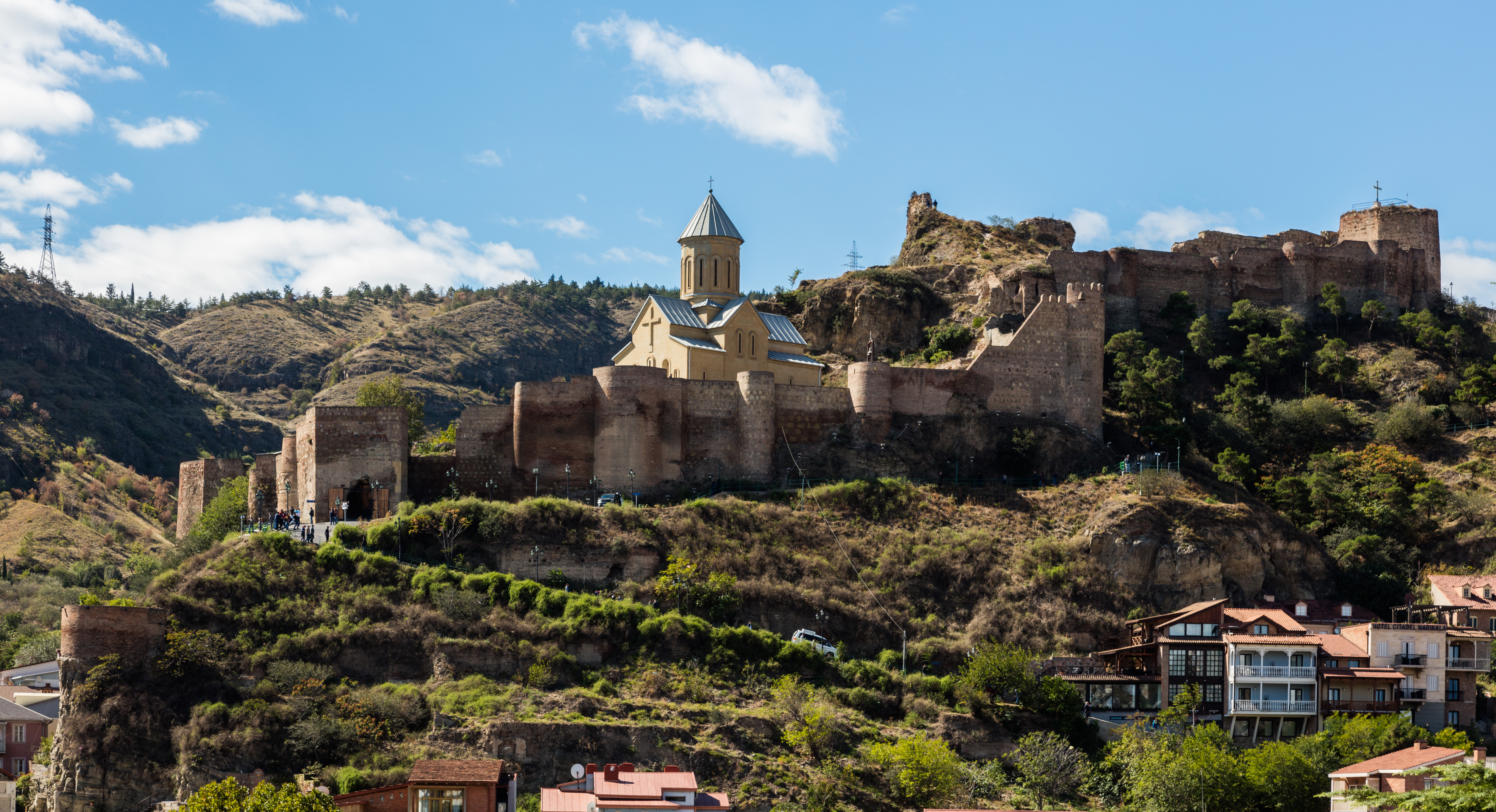 Narikala, Tbilisi, Georgia